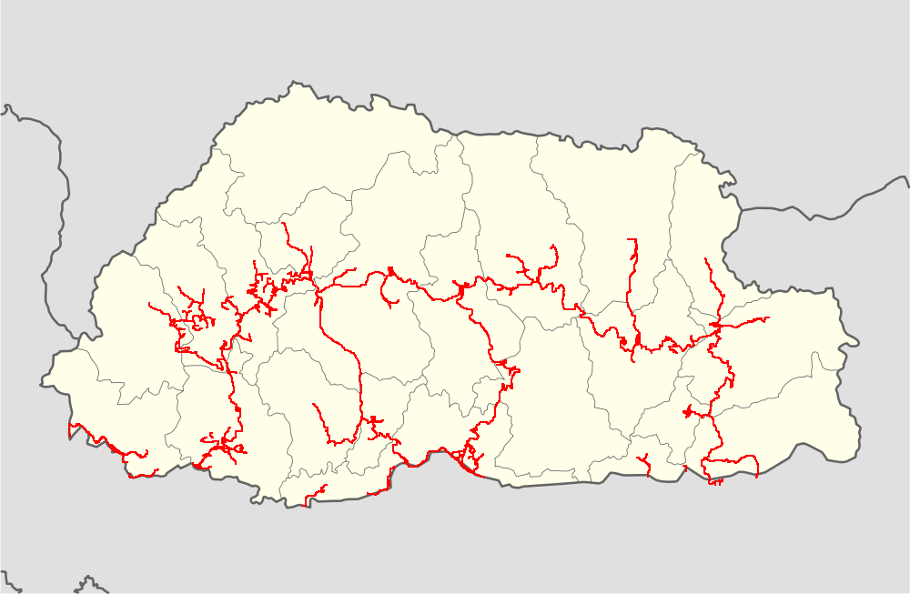 Bhutan highways blank location map